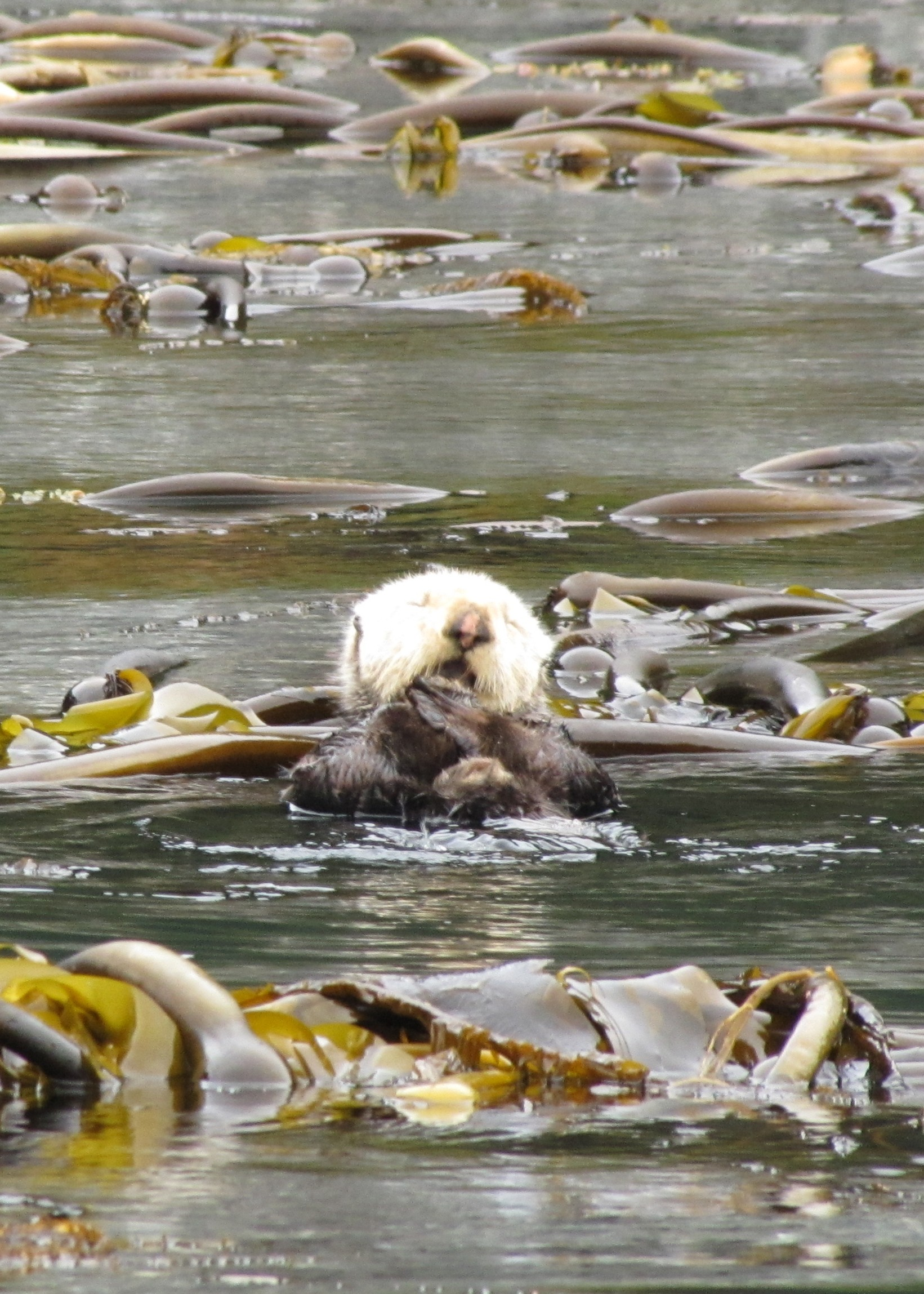 Among kelp fronds, (probably southeast) Alaska